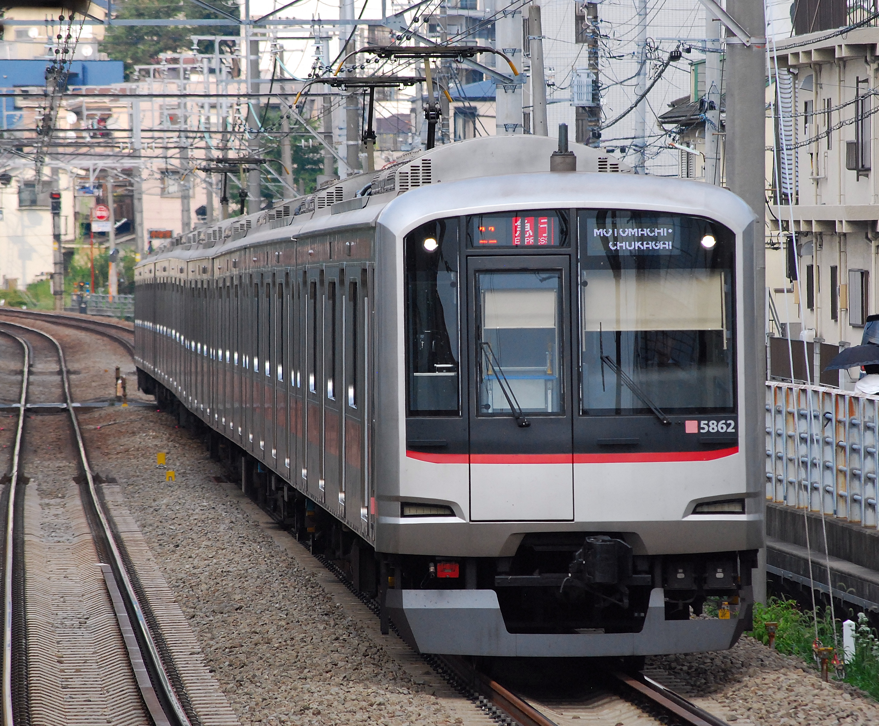 Tokyu 5050 series EMU set 5162 approaching Hakuraku Station on the Tokyu Toyoko Line in Kanagawa Prefecture, Japan